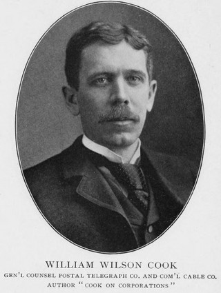 Photograph of William W. Cook from "New Yorkers of 1896-1899 : a companion volume to King's handbook of New York City" (1899) by Moses King